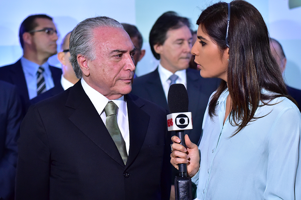 Michel Temer in an interview with Andréia Sadi